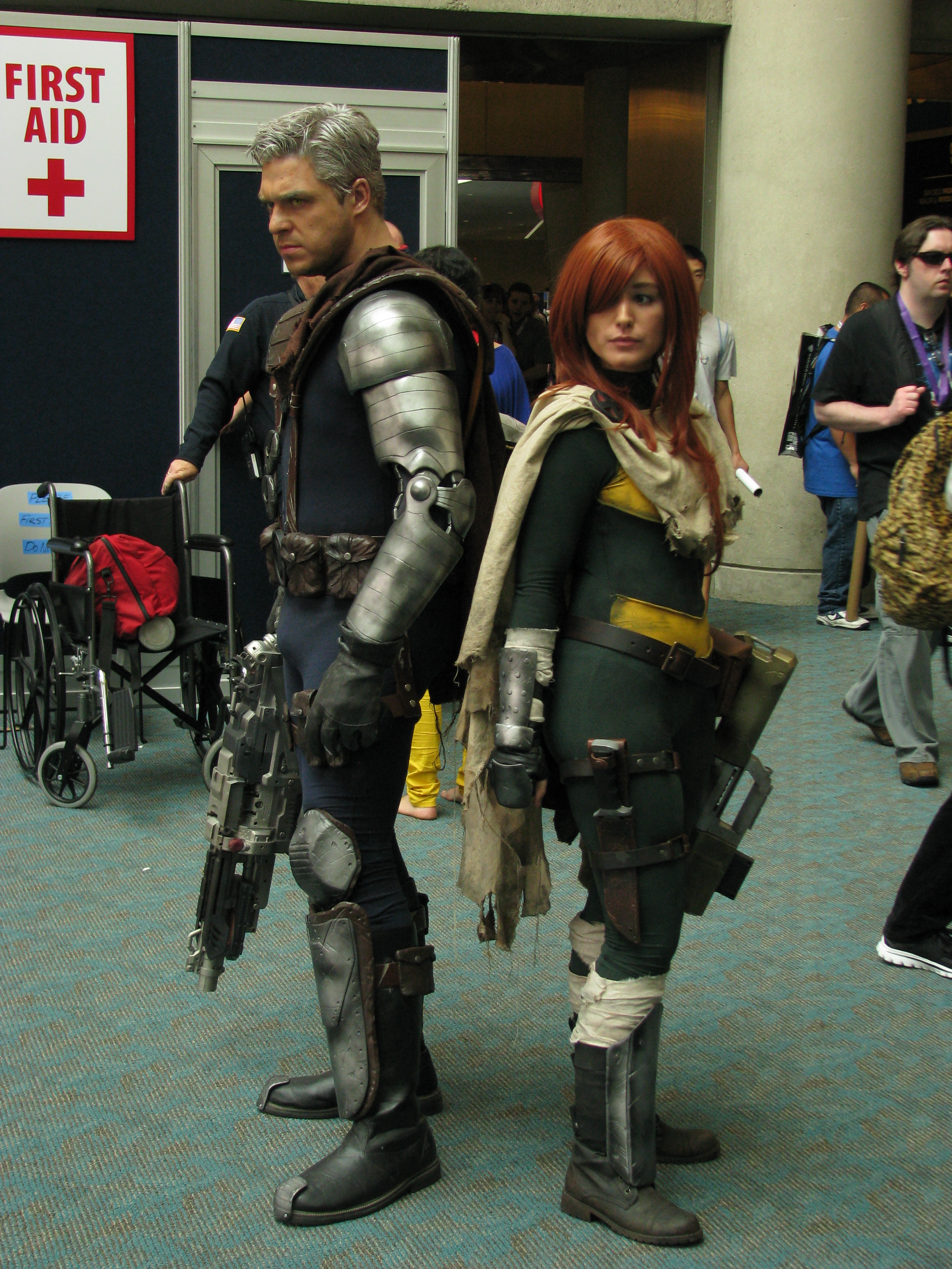 Cosplays of Cable and Hope from comic books X-Men